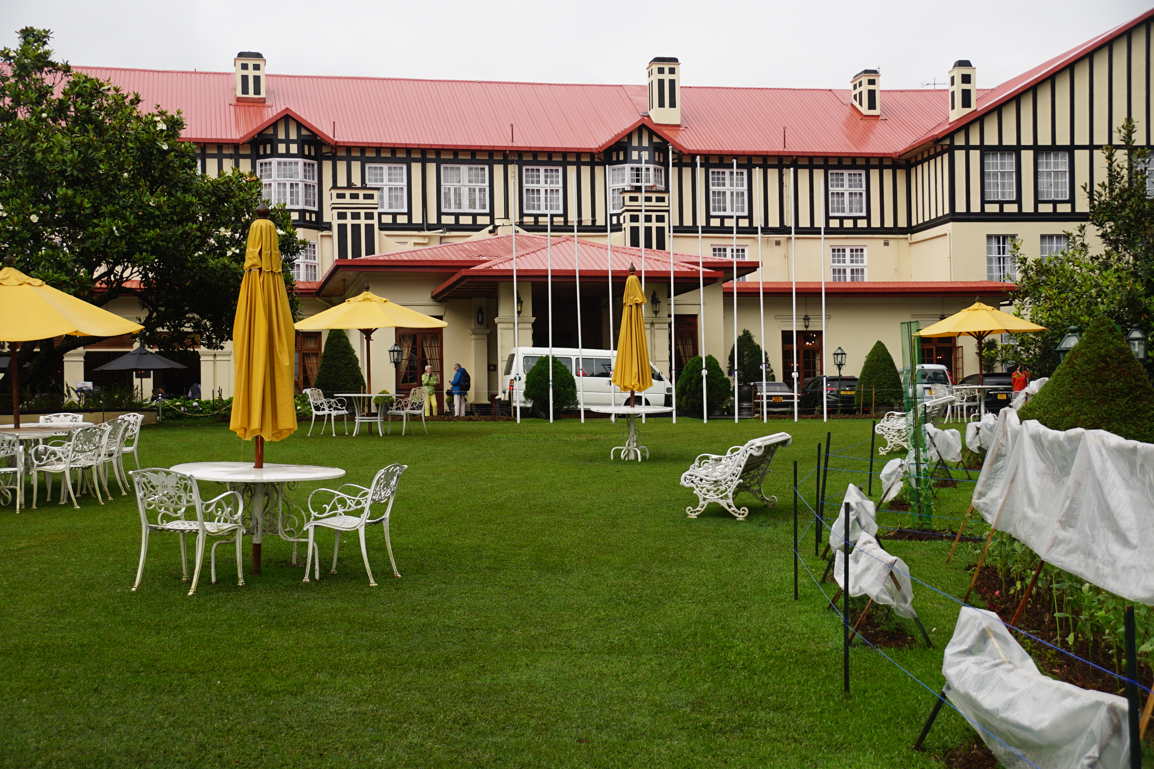 The exterior of the Grand Hotel, Nuwara Eliya taken from the front lawn